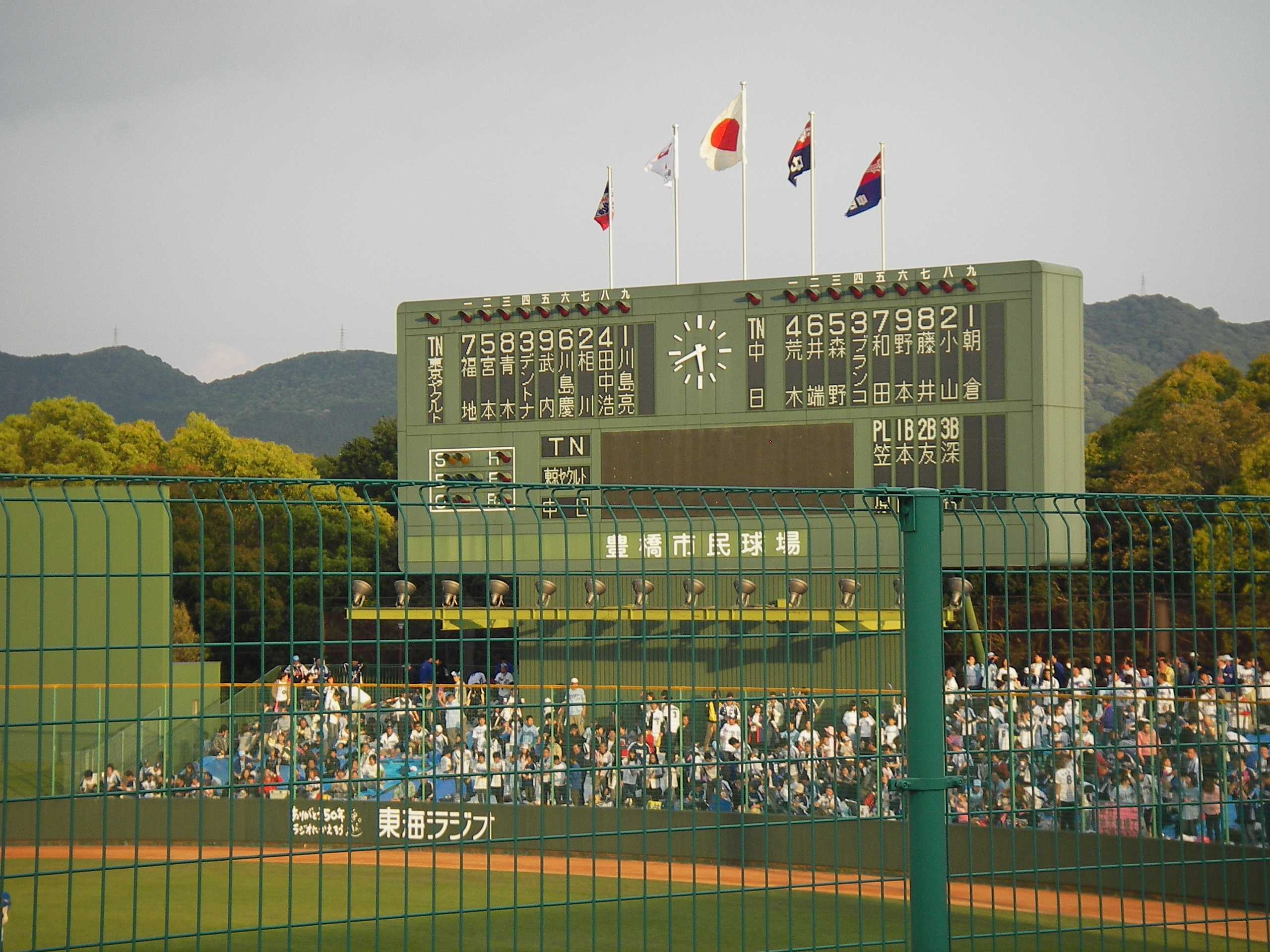 Score Board in Toyohashi Municipal Baseball Stadium